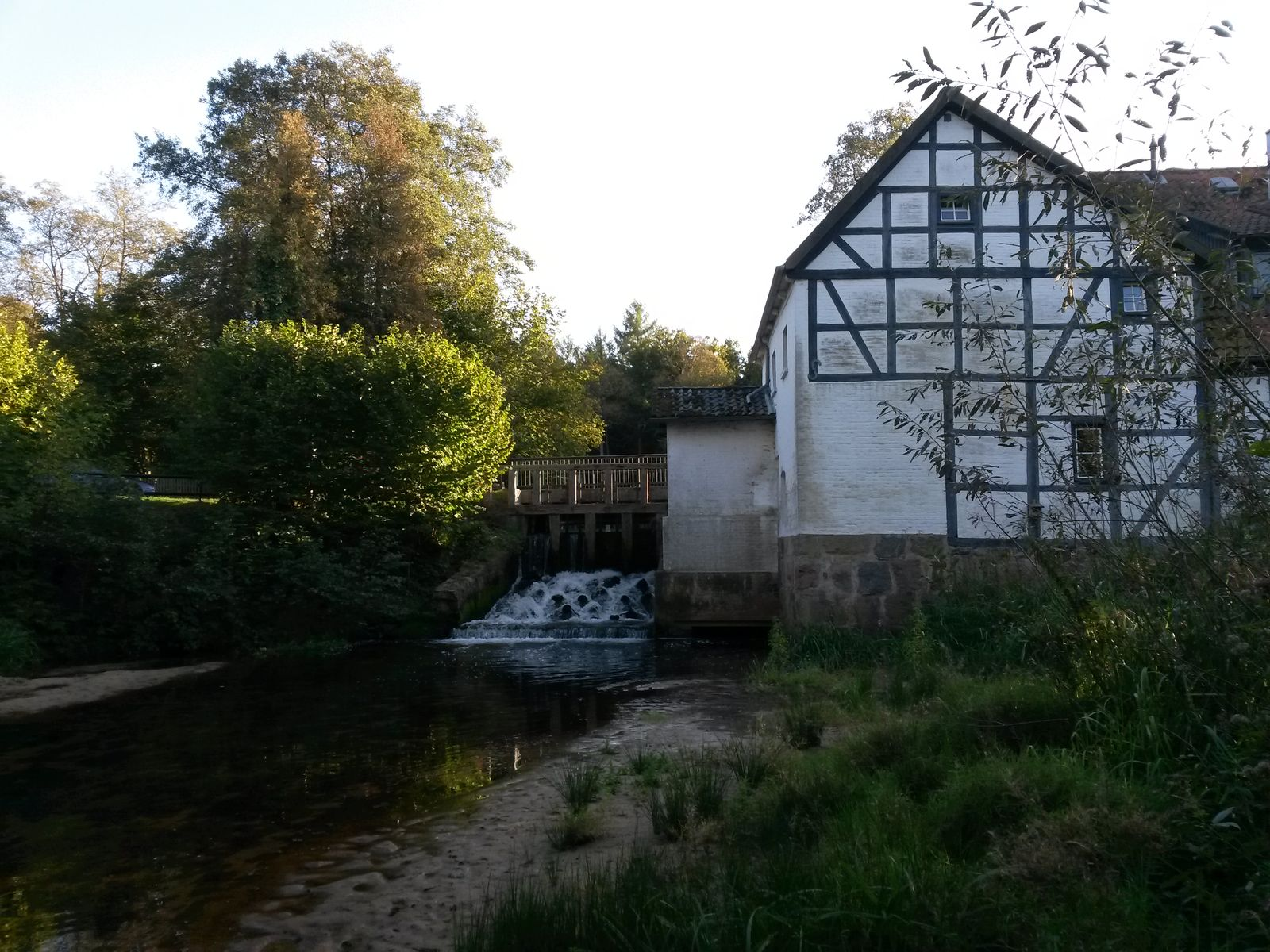 Mill Bötersheim